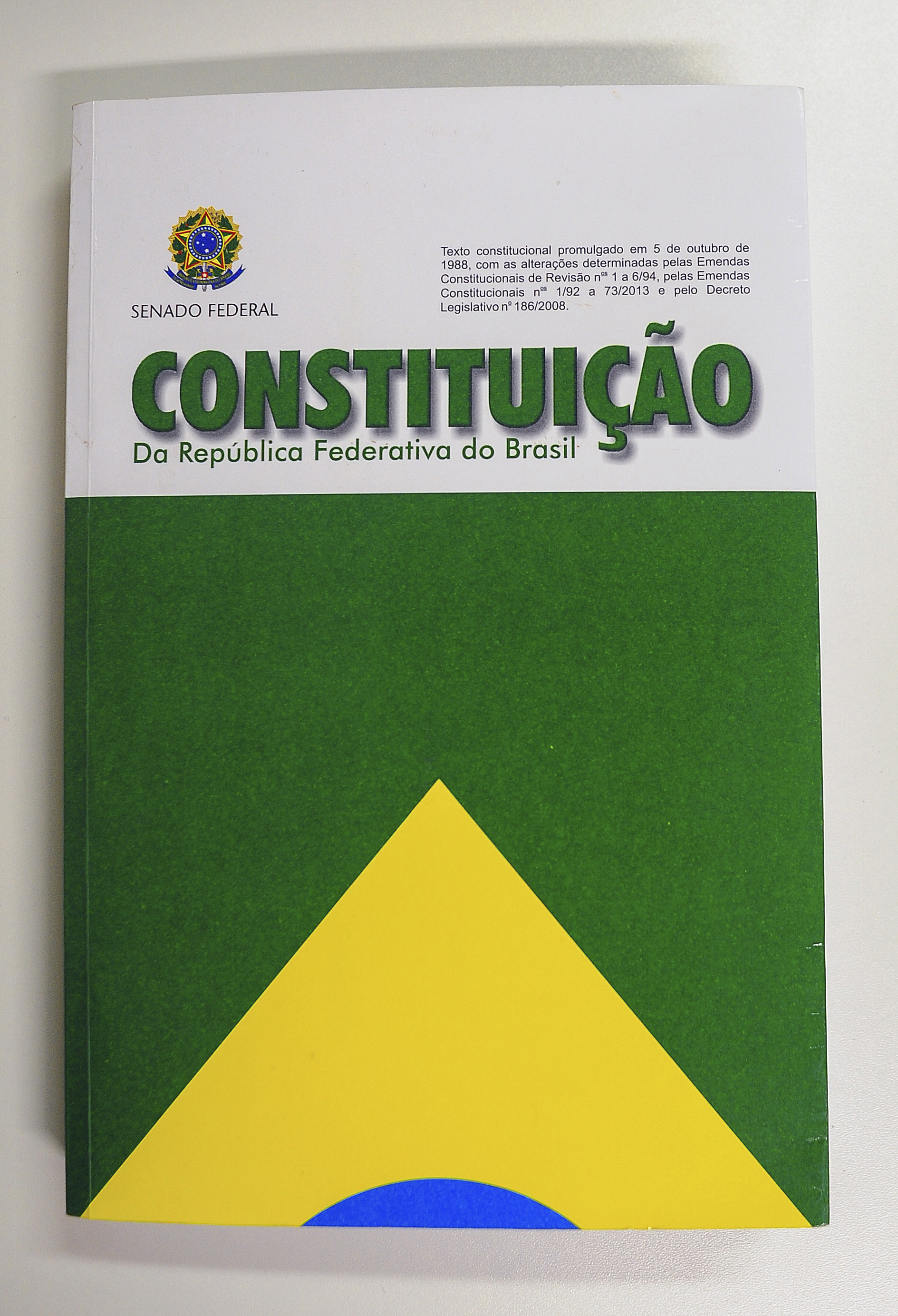 Constitution of Brazil